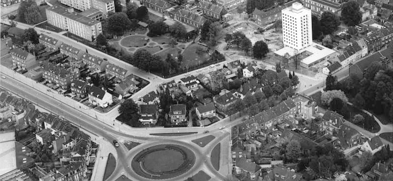 Luchtopname van het Tongerseplein en het terrein van het voormalige ziekenhuis Calvariënberg, in 1964 in gebruik als verpleegkliniek en psychiatrisch ziekenhuis, in Maastricht. Fotocollectie RHCL Maastricht, GAM 13275.